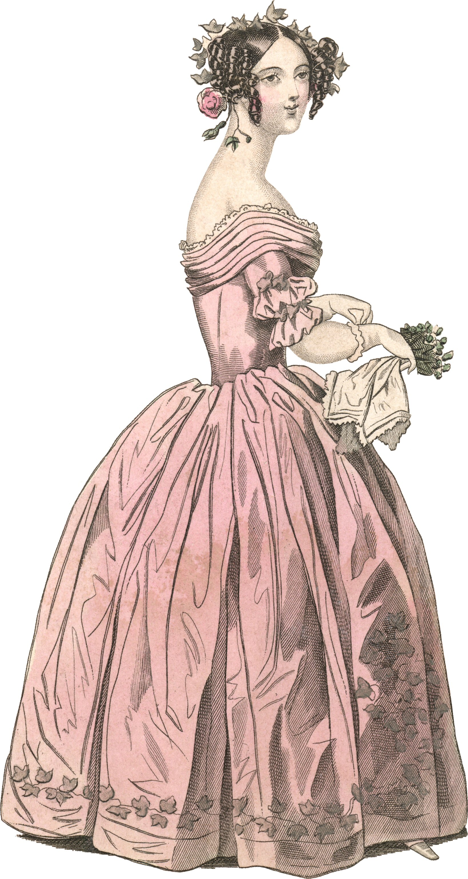 A robe of pink velours épinglé, trimmed round the border with a wreath of leaves in dead gold; a gerbe of them ascends on each side of the front as high as the knee. Corsage drapé trimmed with blond, standing up on each side of the bust. Short sleeves, the lower part moderately full, and arranged in front, and a twisted knot behind; it is ornamented with a wreath of gold leaves, terminated by a red rose with buds and foliage.